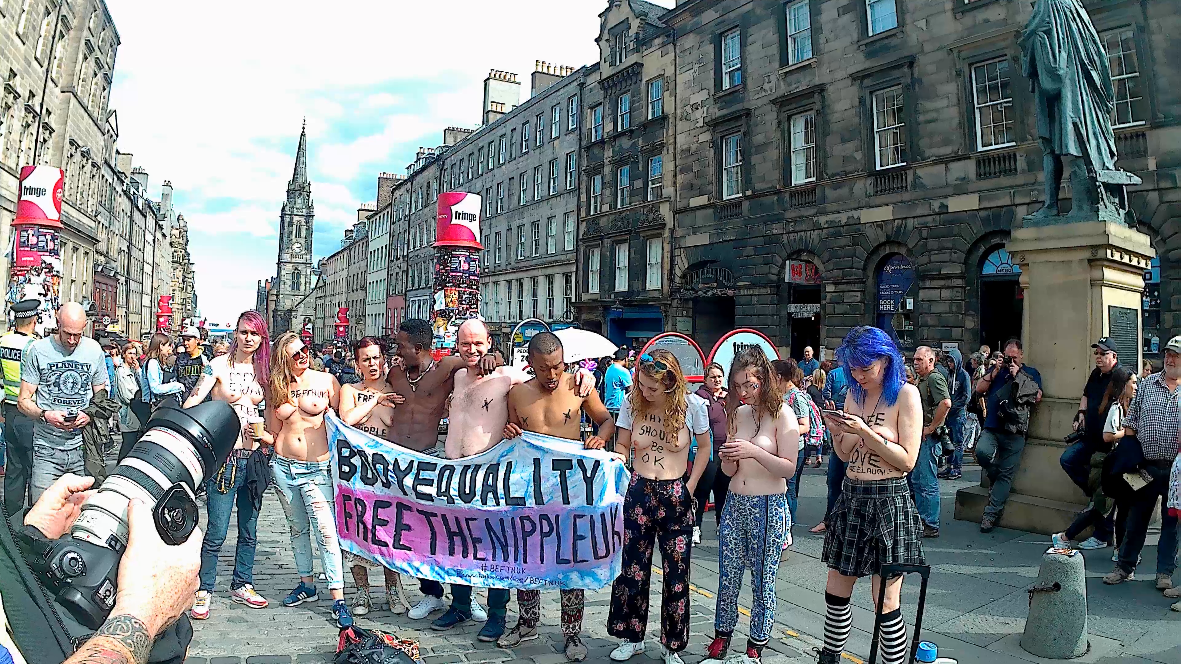 Free the Nipple Protest at Fringe 2017 Festival in Edinburgh